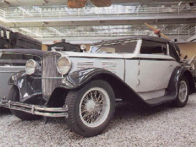 Car made by Walter Motors